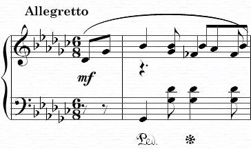 Chopin's Contredanse in G flat major